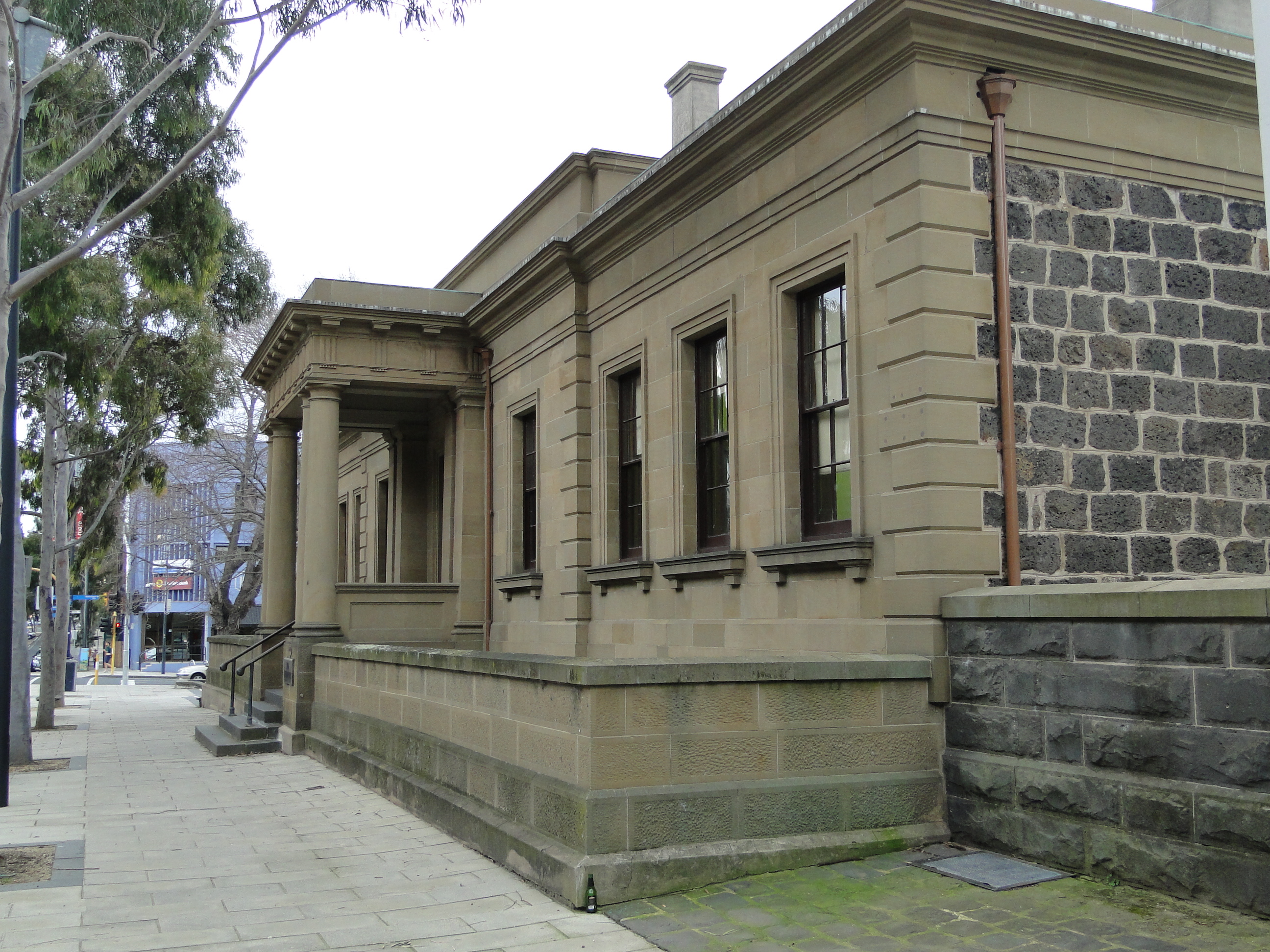 The Geelong Customs House at 57-59 Brougham Street, Geelong, Victoria, Australia. No longer used for customs, it is now a restaurant.